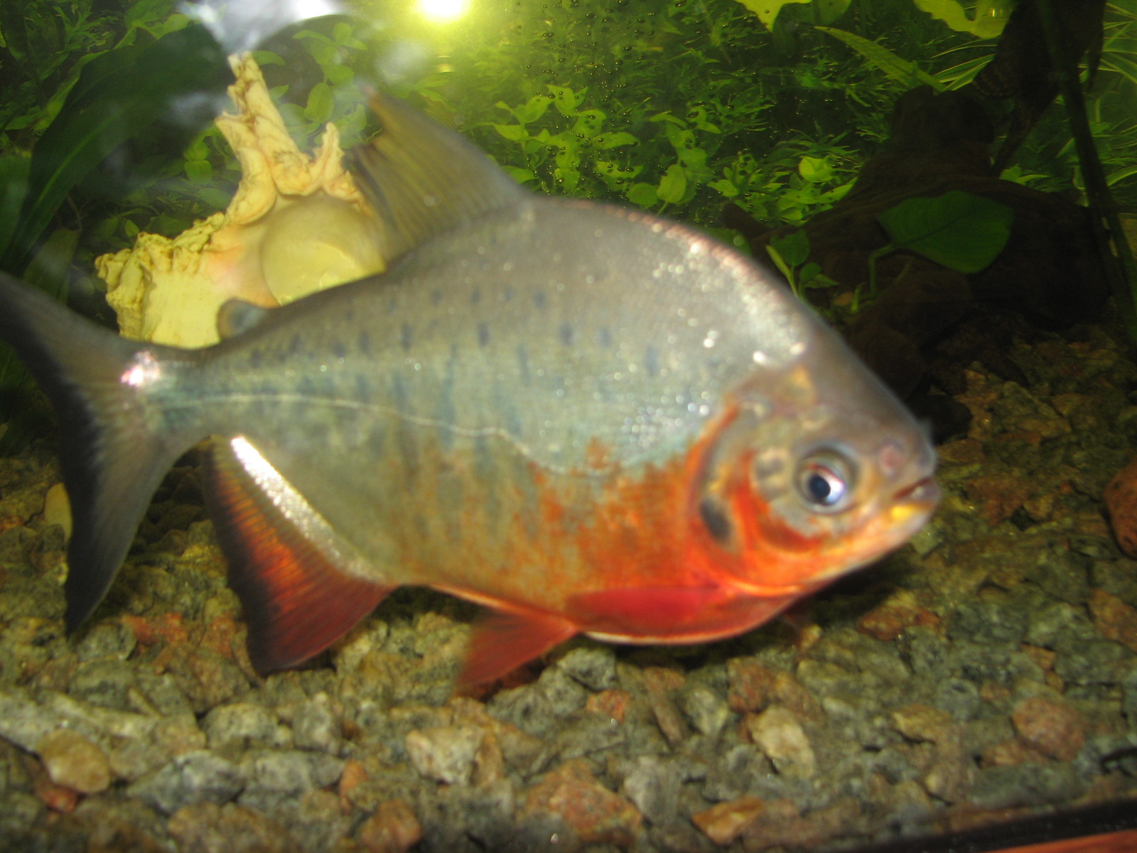 Red Pacu